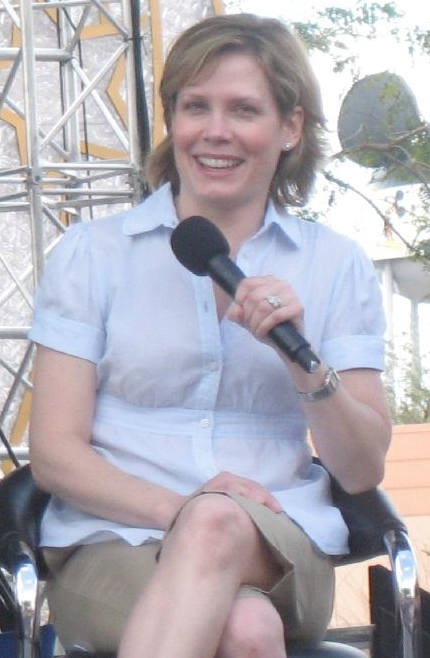 ESPN the Weekends at Disney's Hollywood Studios